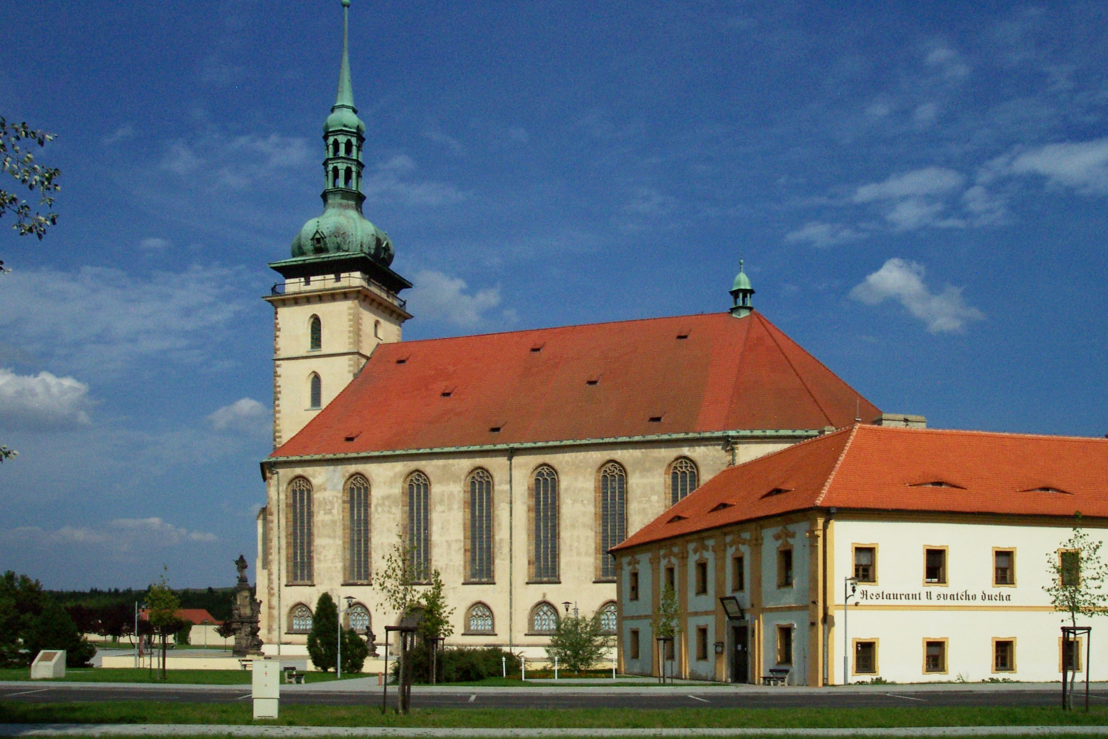 Most, the historical gothic church of the Assumption. This church was in '70s and '80s removed from its original position to new, because the old city Most was later destroyed due to the coal under it